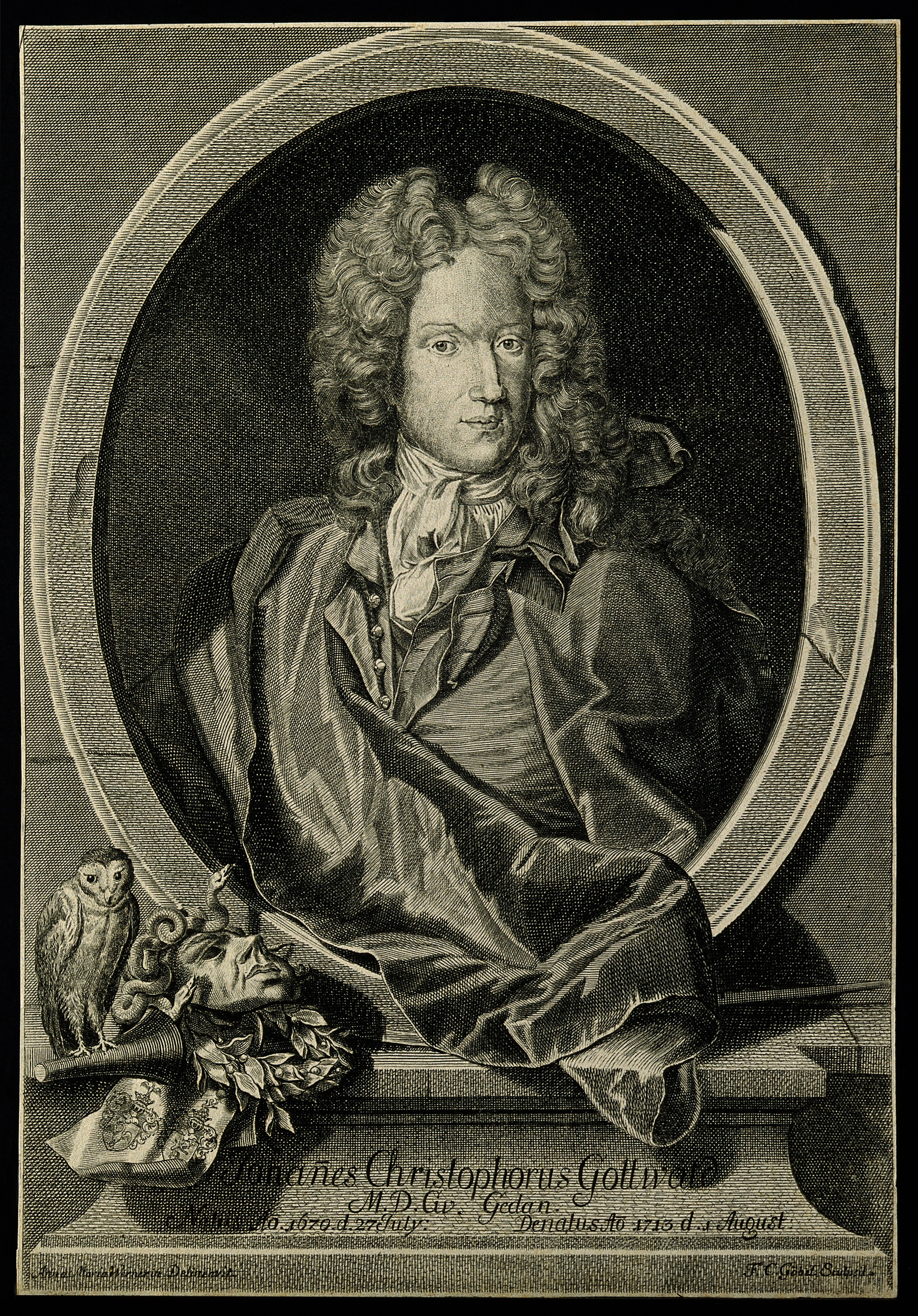 Johann Christoph Gottwald. Line engraving by F. C. Göbel after A. M. Wernerin. Iconographic Collections Keywords: portrait prints; engravings; F. C. Gobel; A. M. Wernerin; Johann Christoph Gottwald